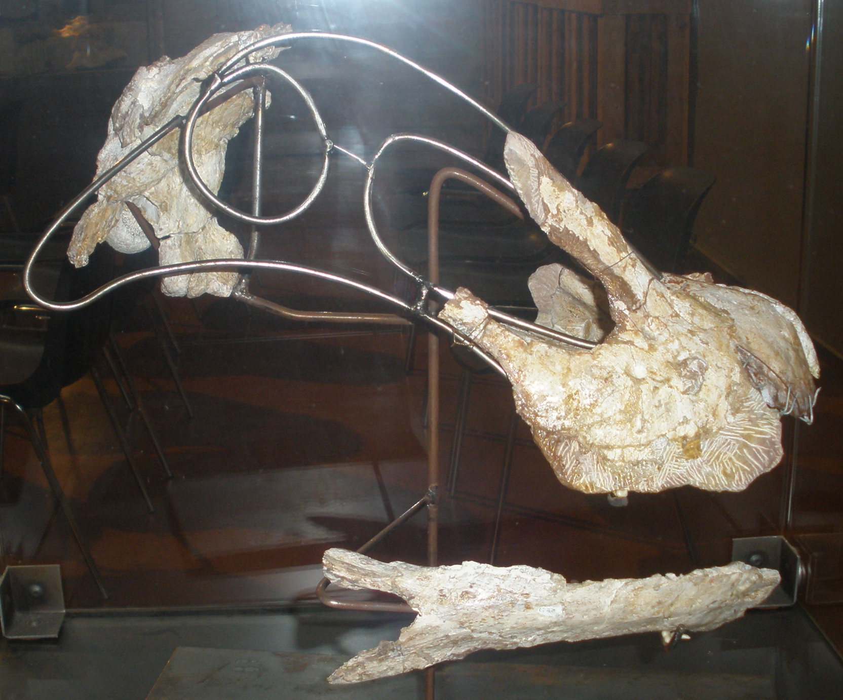 skull of a titanosaurian